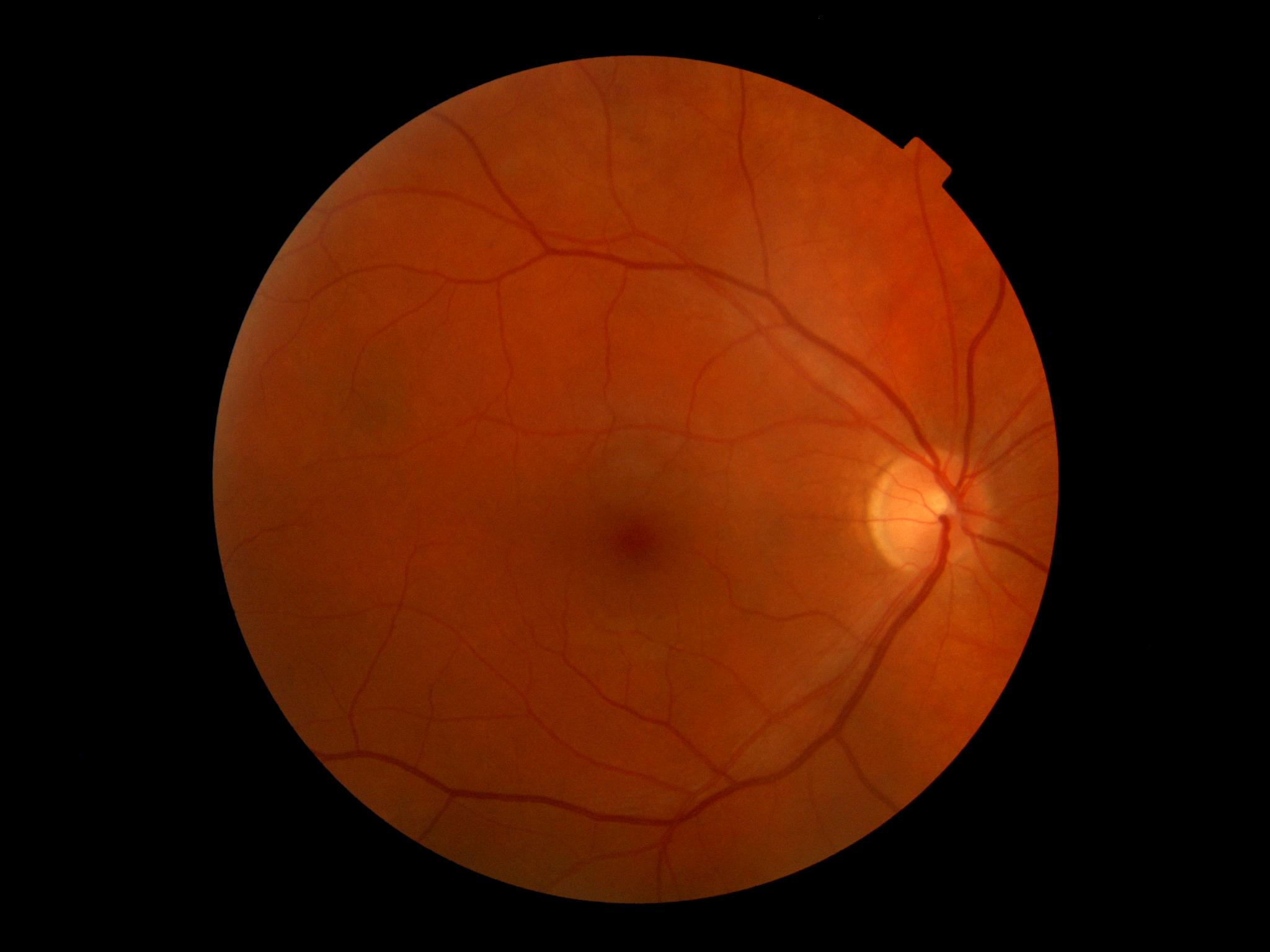 Human eye. The light circle is where the optic nerve exits the retina.